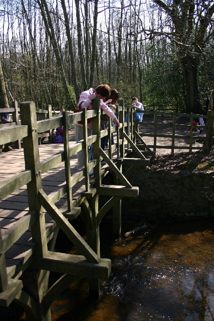 Pooh Sticks Bridge, Ashdown Forest AA Milne's famous bridge.